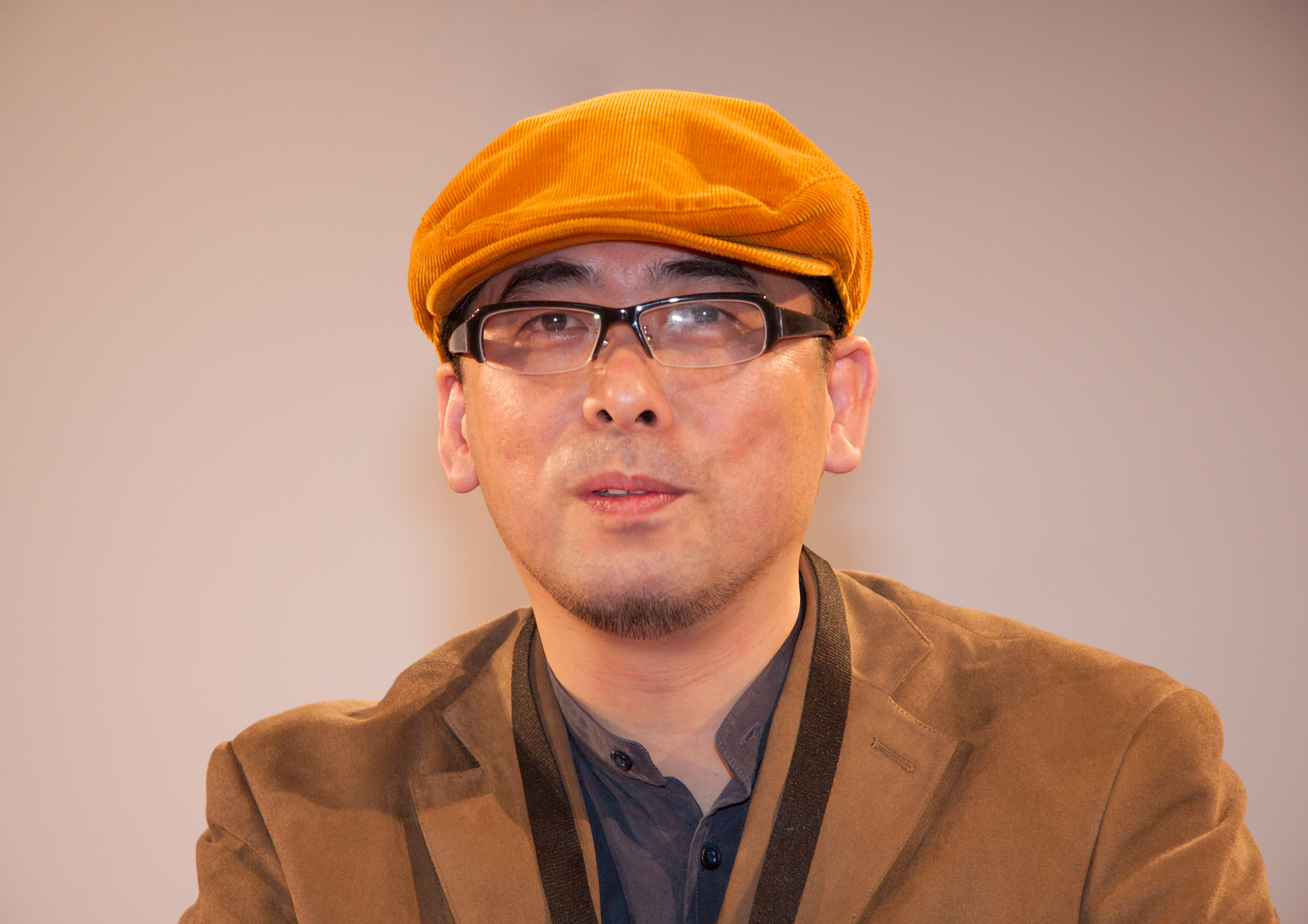 Autograph session with Tensai Okamura at Chibi Japan Expo 2007 (Paris, France).